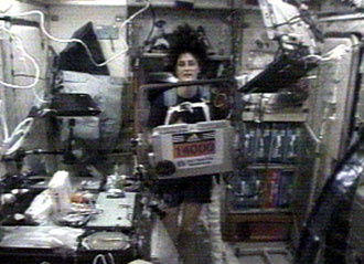 210 miles above Earth, Expedition 15 crew member Sunita Williams attempted something no other astronaut has ever done. She ran the Boston Marathon while in orbit.